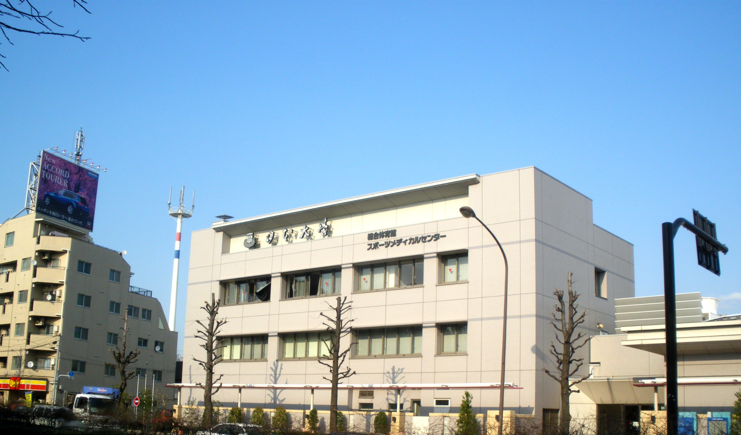 Nihon University General Gymnasium(Hachimanyama,Setagaya,Tokyo)